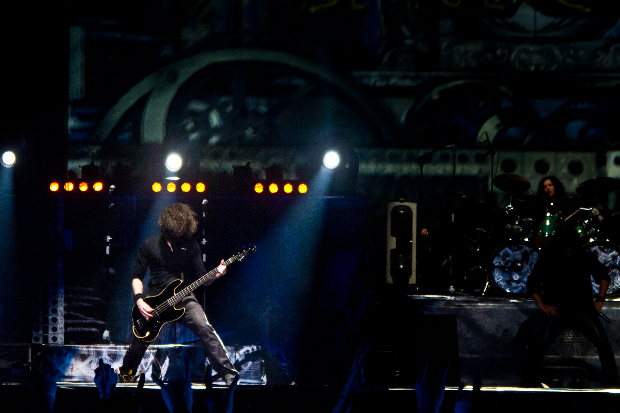 Spanish heavy metal band WarCry in concert in 2012.